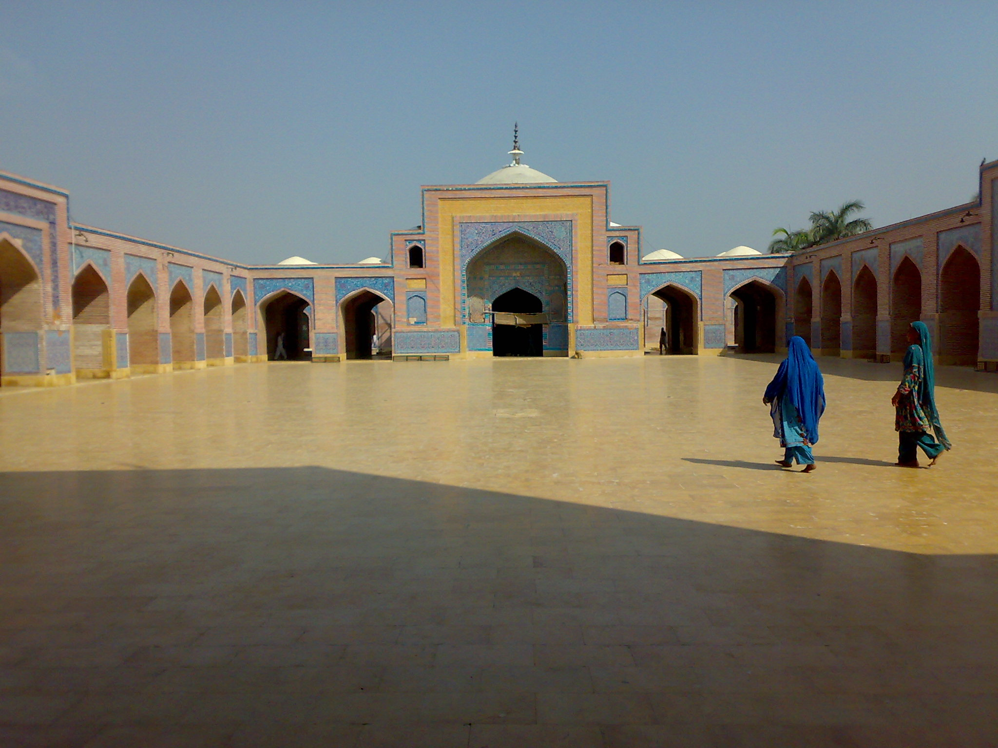 Thatta Pakistan